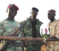 "Ivory Coast northern rebels"